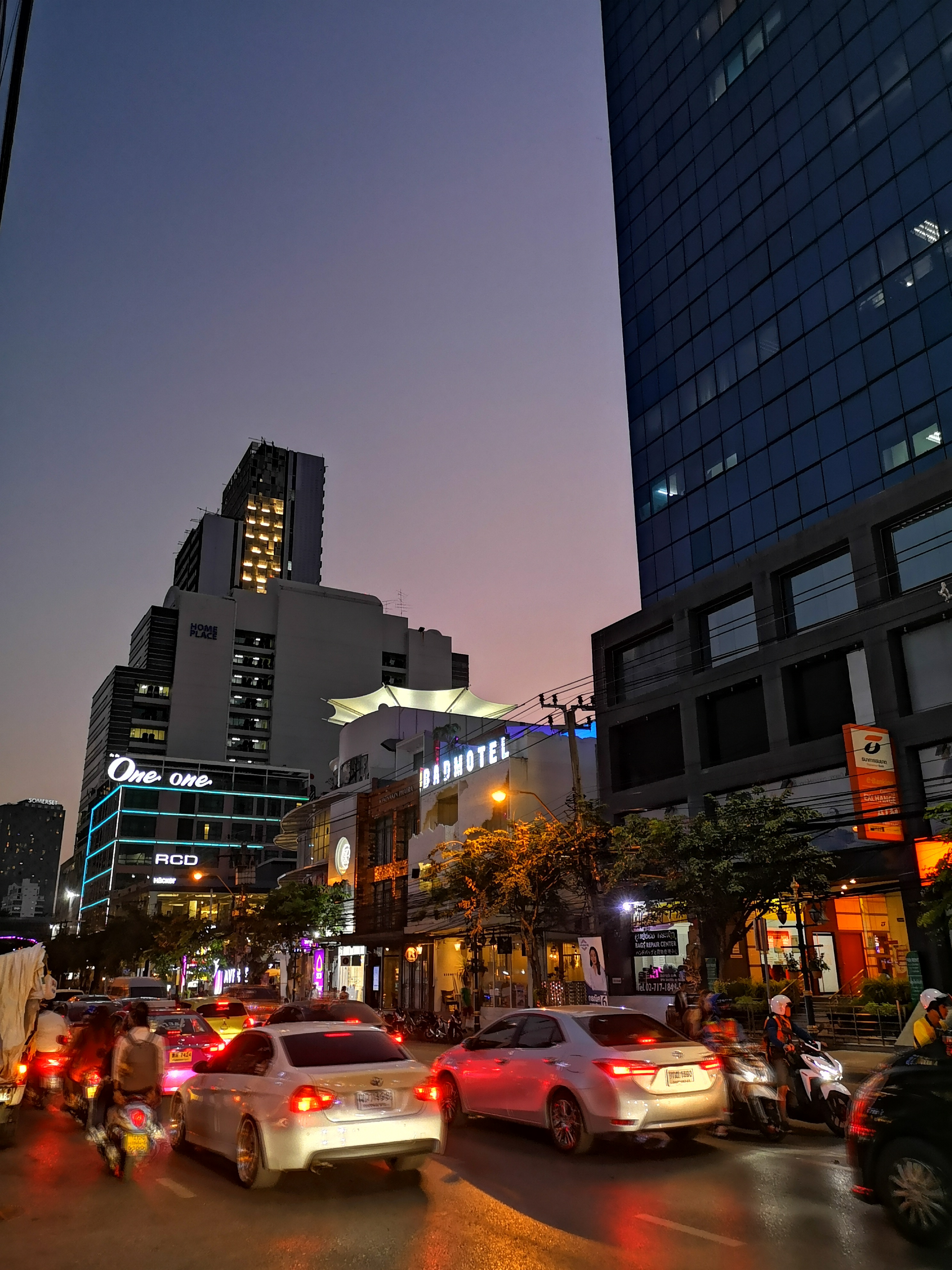 Thong Lor at night